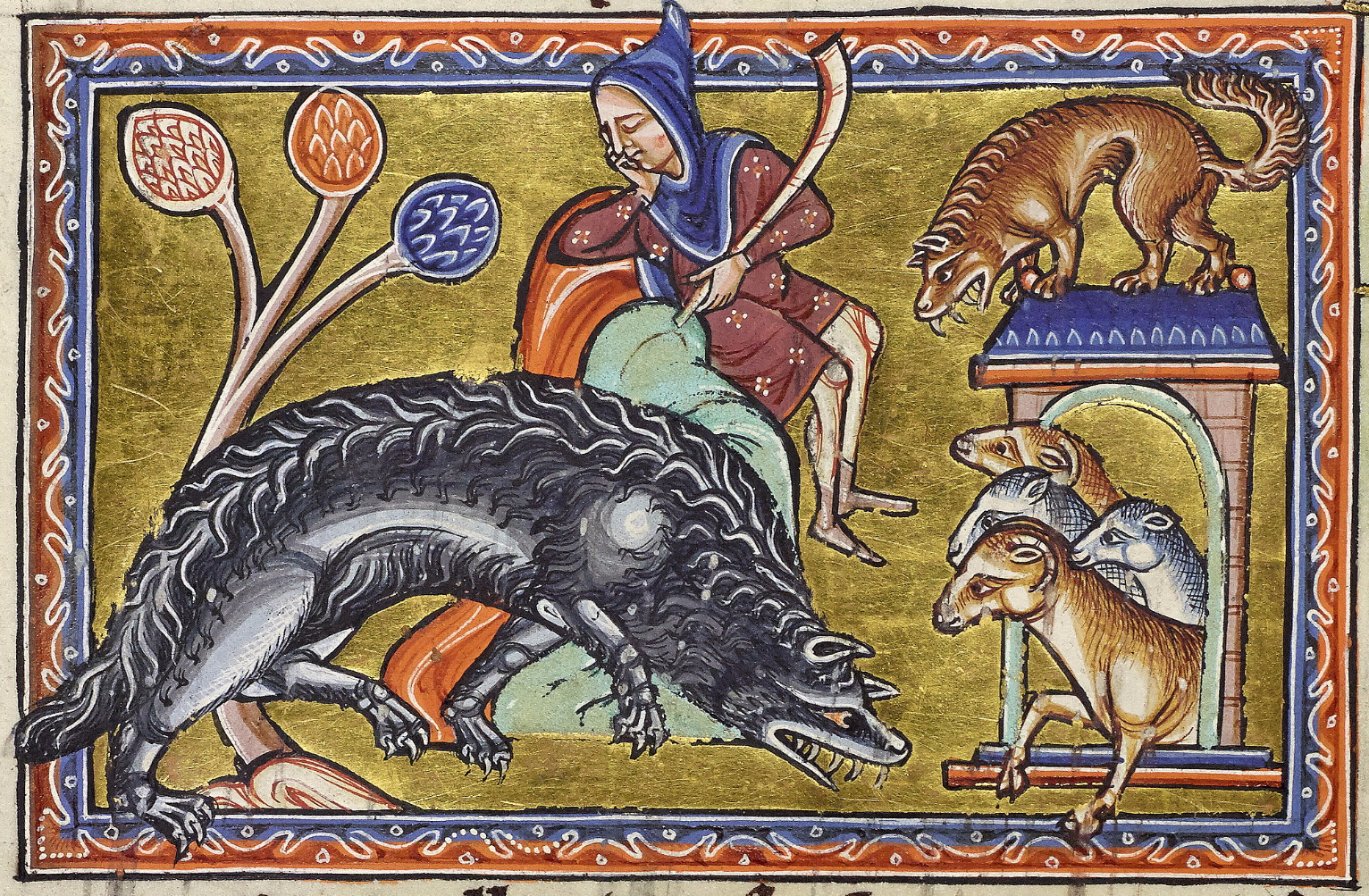 Aberdeen Bestiary: Wolf sneaking up to the sheepfold